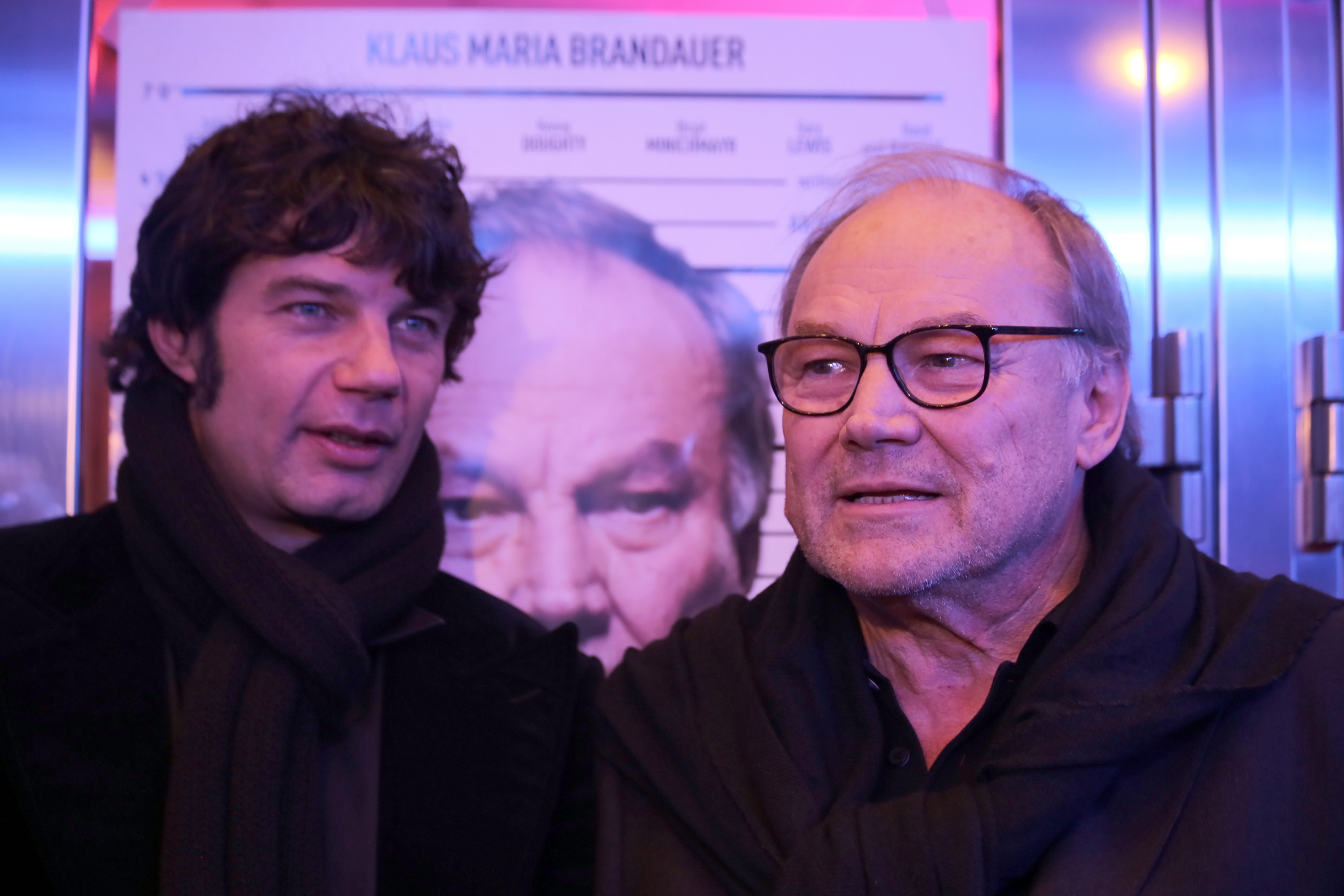 Actor Klaus Maria Brandauer and director/writer Antonin Svoboda at the premiere of The Strange Case of Wilhelm Reich, Vienna International Film Festival 2012, Gartenbaukino.